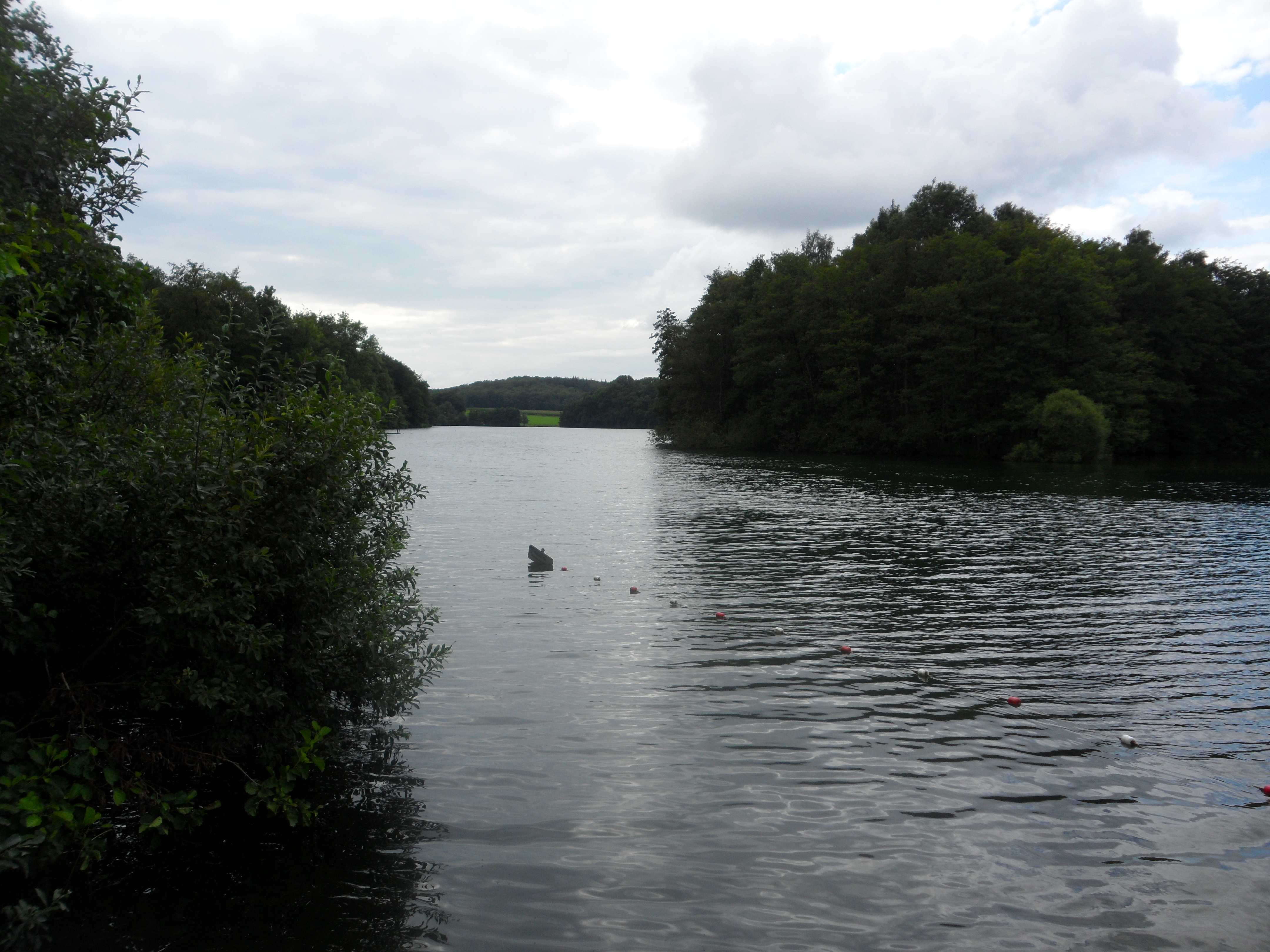 Stocksee in Schleswig-Holstein, Germany